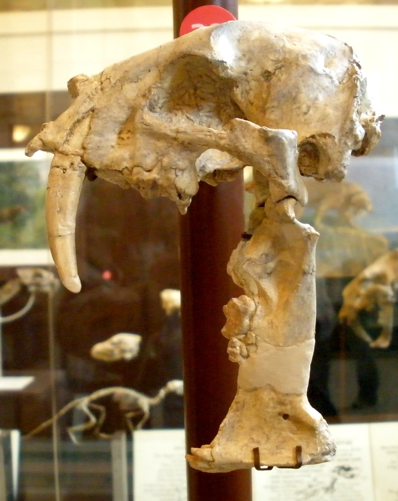 Skull of Eusmilus olsontau, a fossil carnivoran